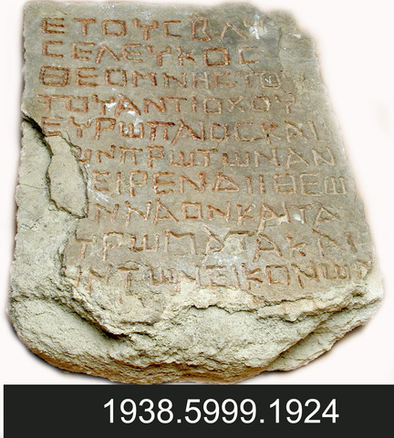 Inscription found at Dura Europos in Temple of Zeus Theos; see Rostovtzeff, Brown, Welles, Excavations at Dura-Europos, 1933-1934 adn 1934-1935, New Haven 1939, pl. LIV,3